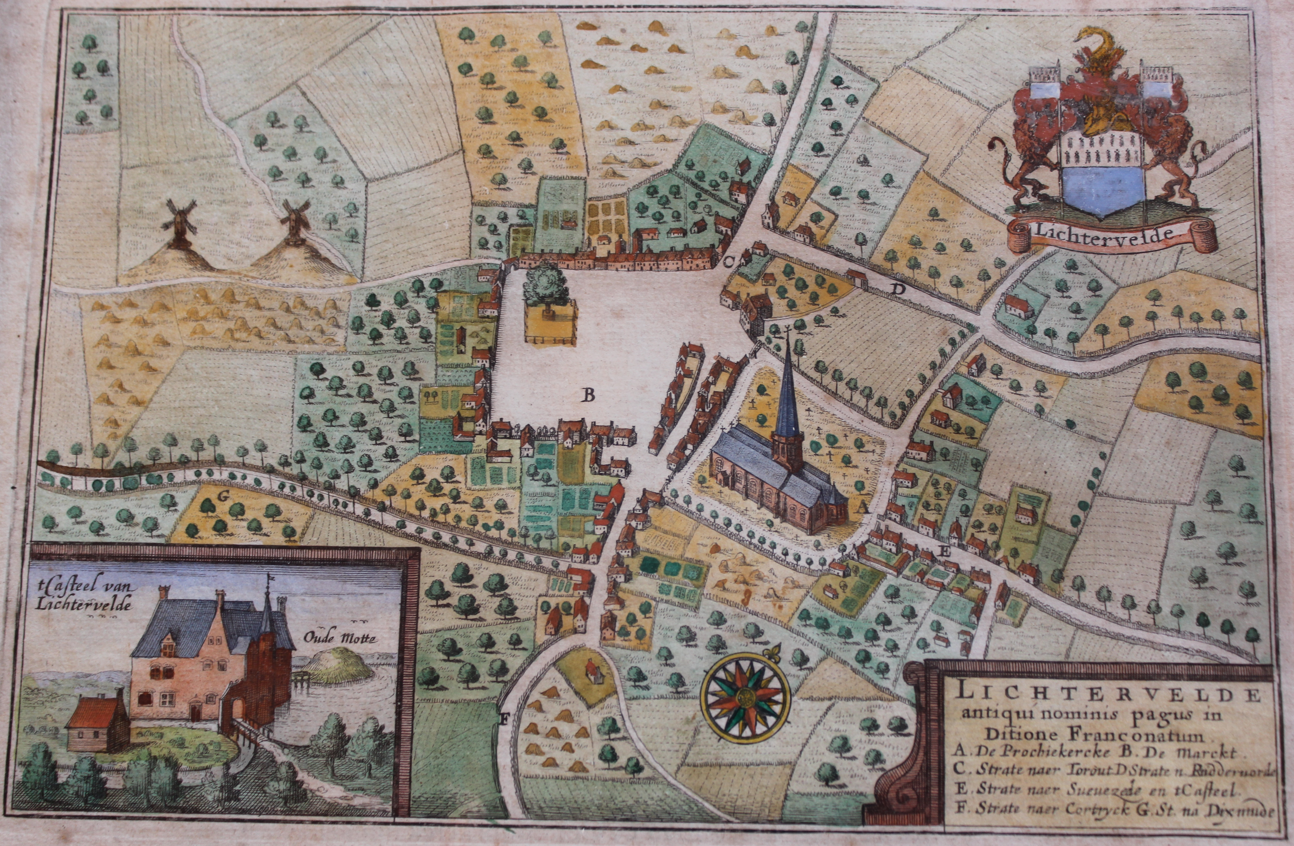 Old map of the village of Lichtervelde